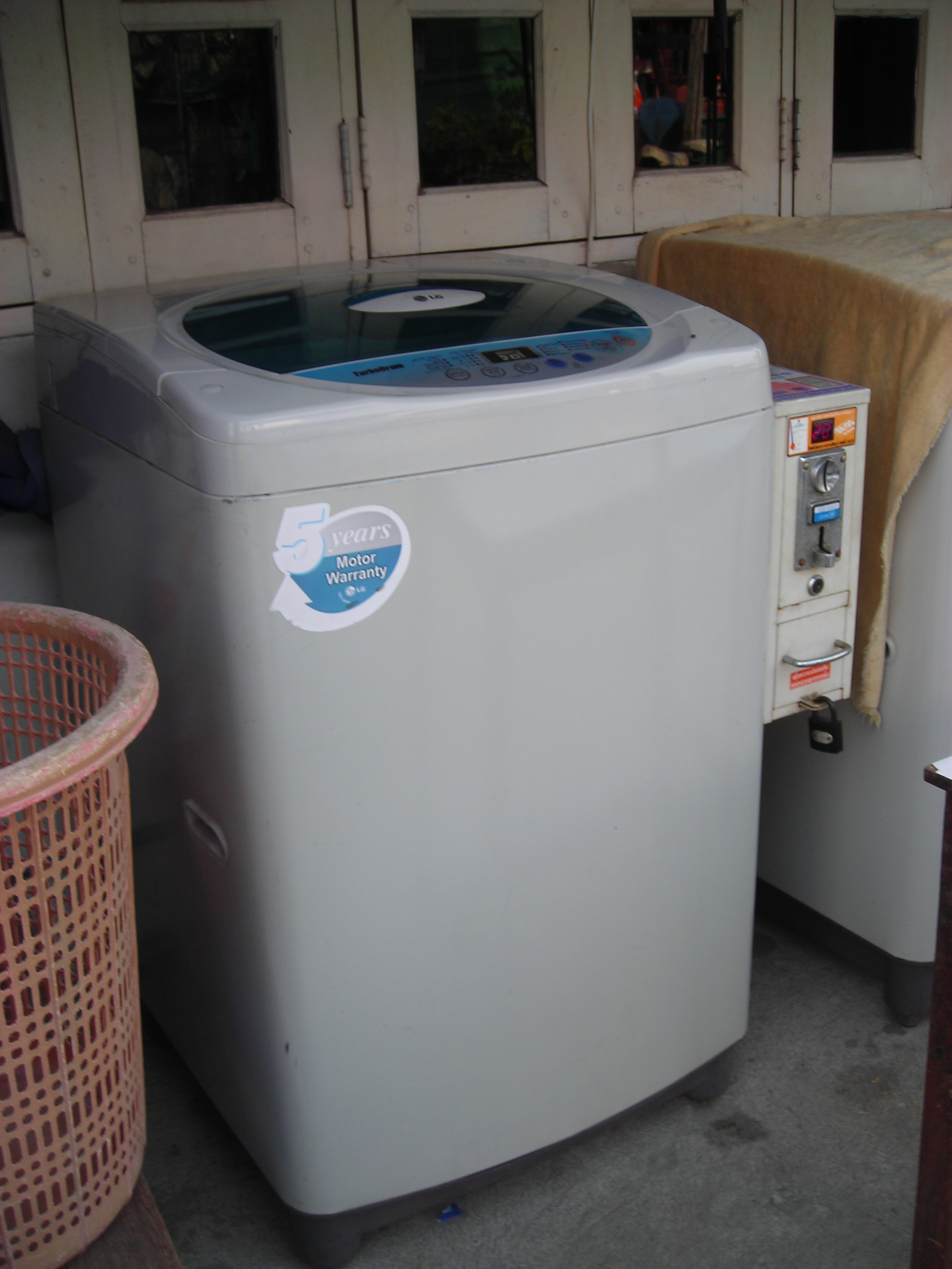 Laundromat in Bang Pu Mai, Samut Prakan Province, Thailand.